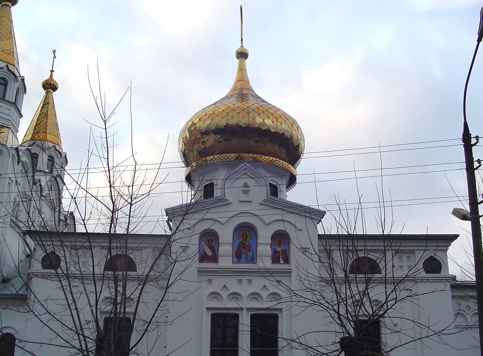 Pushkino city, Russia. Bogolubskaya church. Built in 1906, closed in 1936, returned to the Church in 1992. Named after the Bogolyubskaya (God-loving) icon of Our Lady.